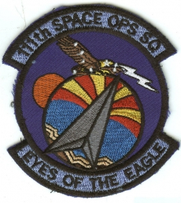 Author: Air Force Historical Research Agency/AZ ANG.